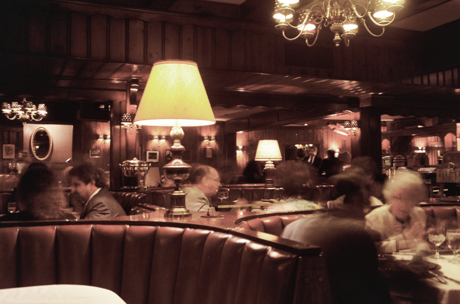 Inside Chasen's Restaurant, Los Angeles, June 1987.